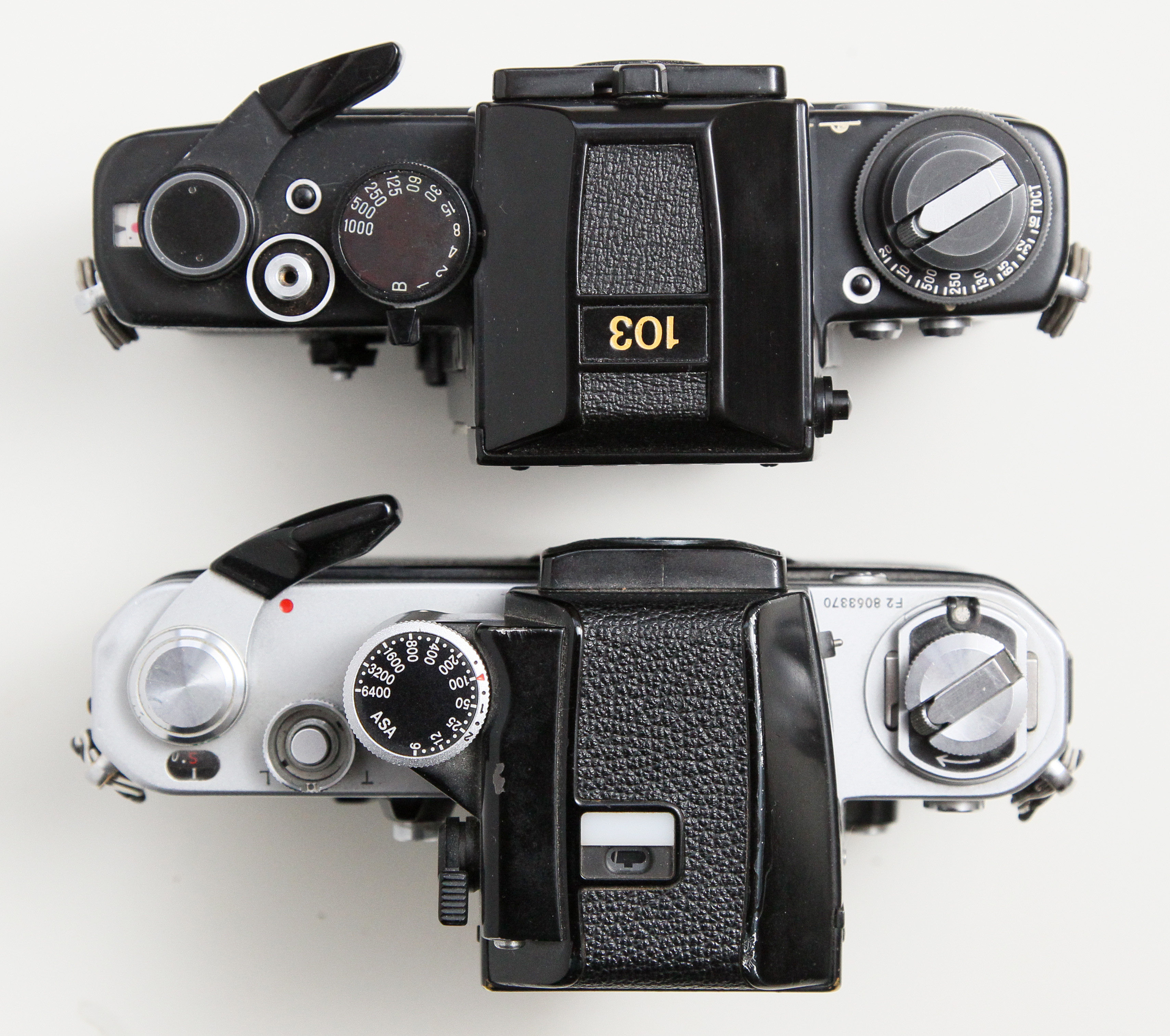 Soviet 'Almaz-103' (top) and Japanese ' Nikon F2 Photomic' (bottom) in comparation